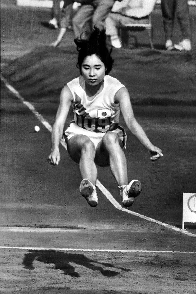 Fumiko Ito of Japan competes in the Women's Long Jump during the Rome Summer Olympic Games at the Olympic Stadium on August 31, 1960 in Rome, Italy.